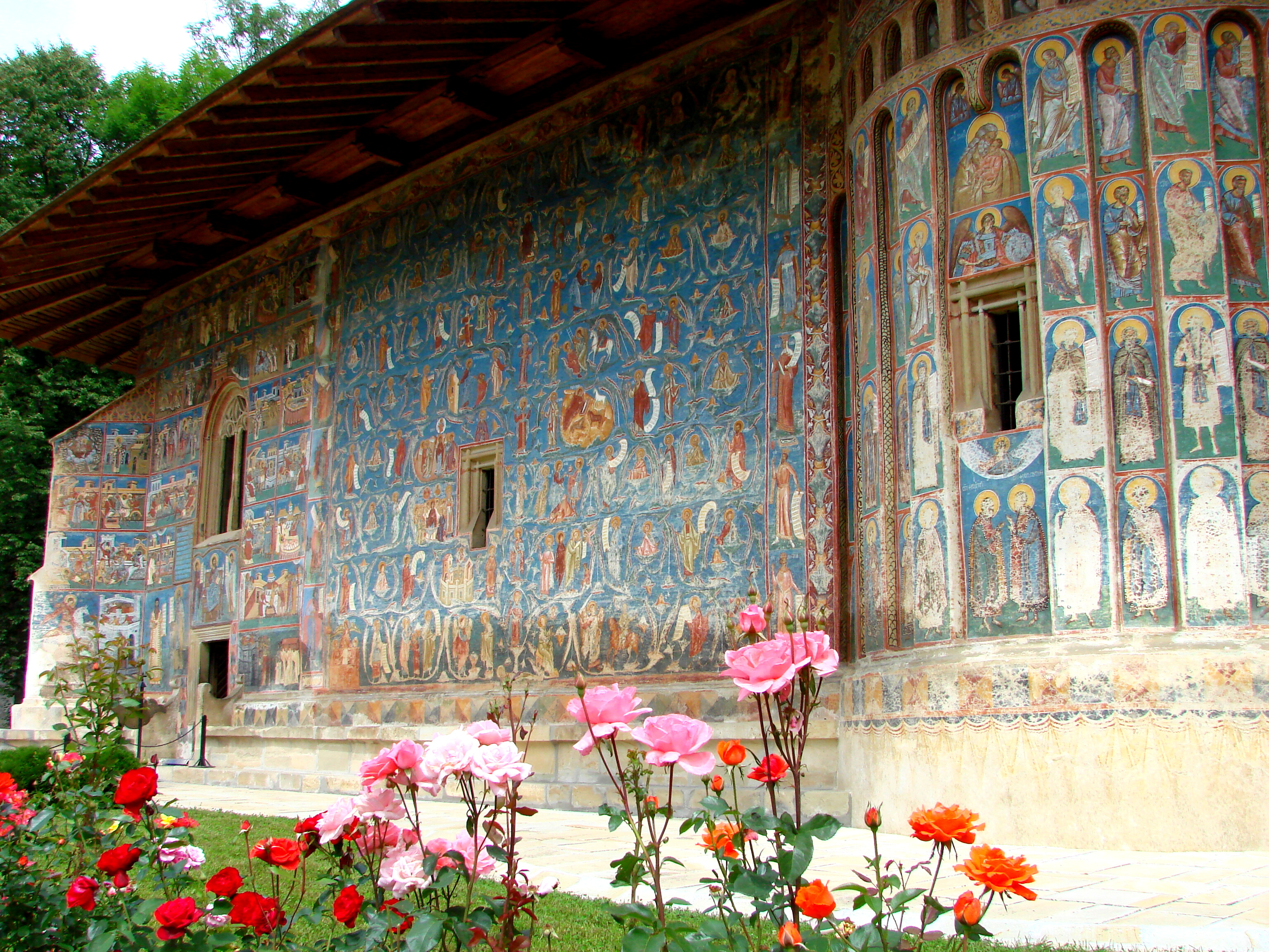 Voronet Monastery, Romania. June 2007.